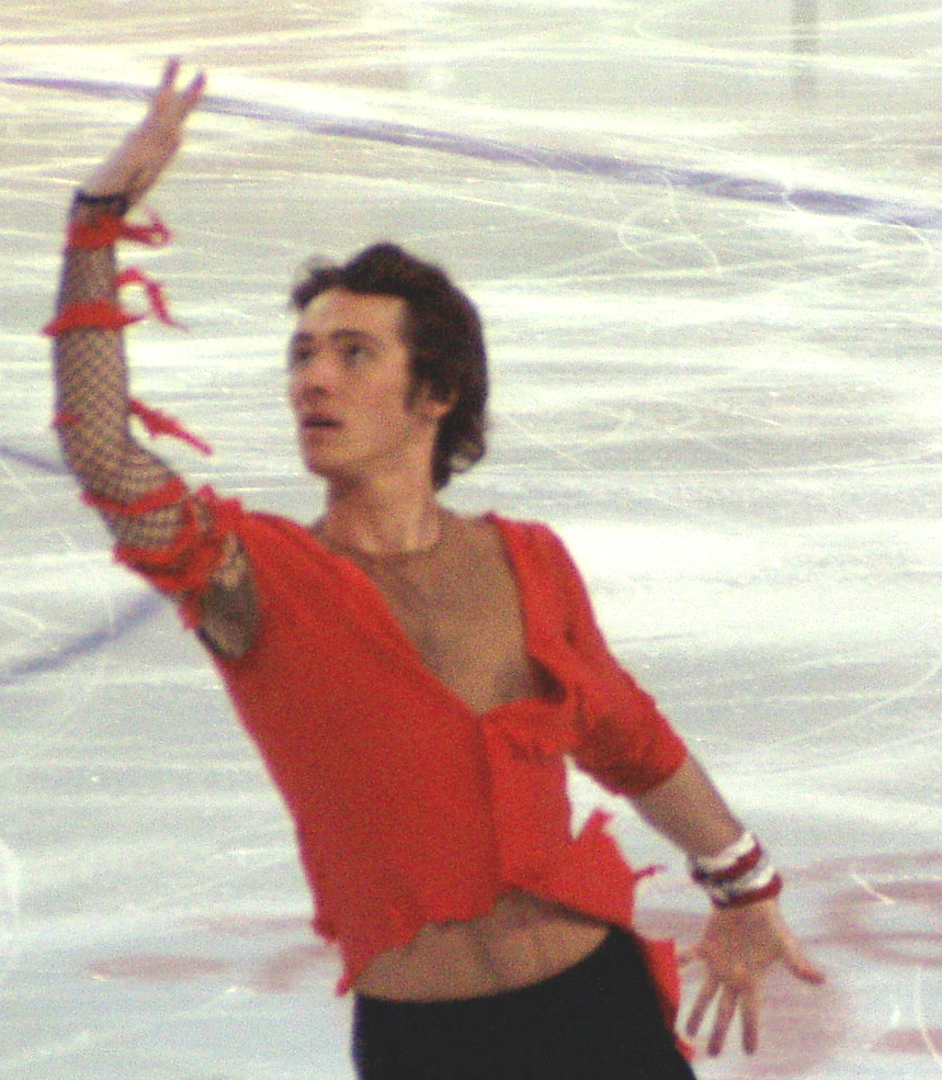 Silvio Smalun at the free program of the German championships 2006 in Berlin